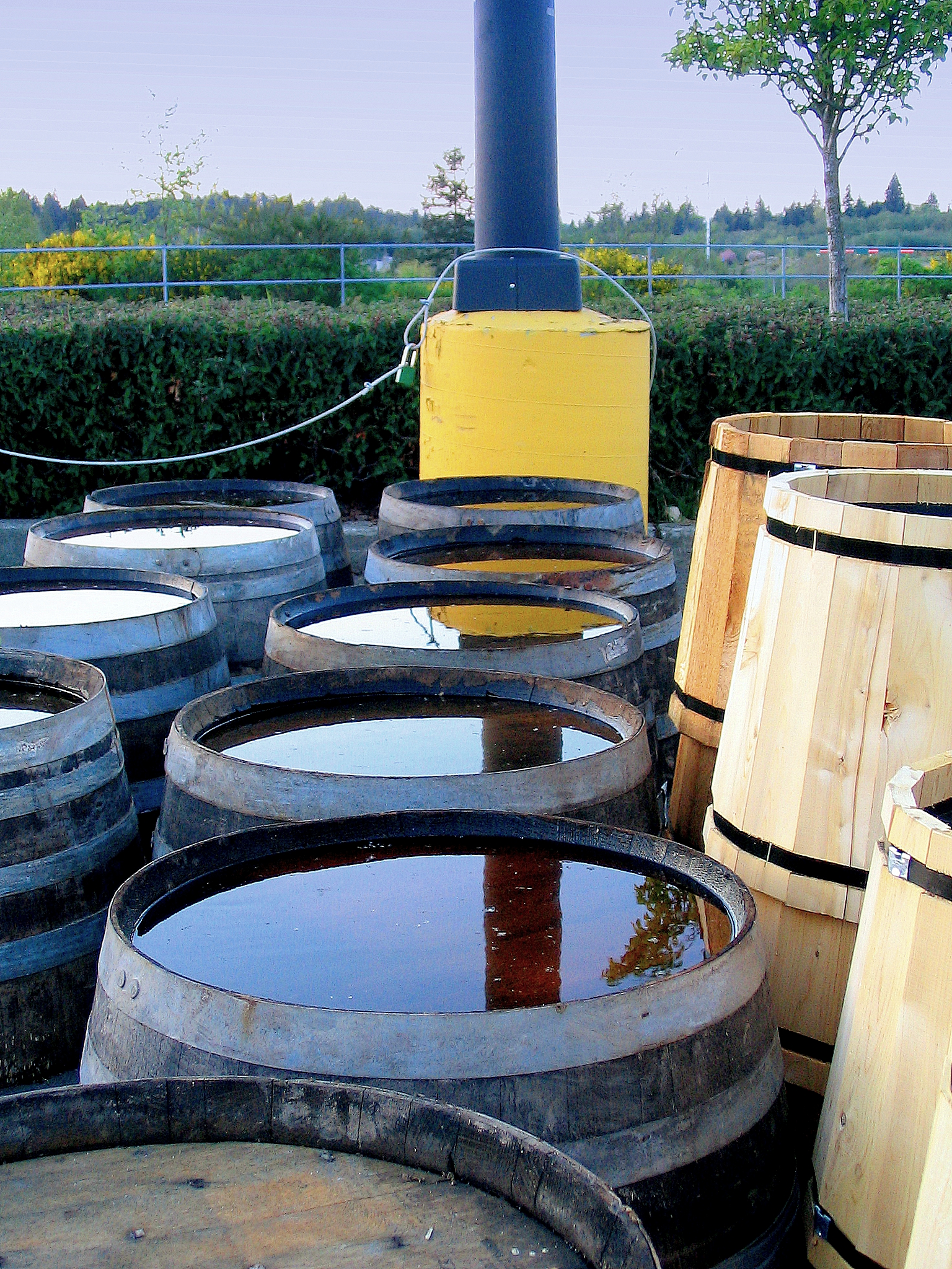 Rain barrels for collection of rainwater.